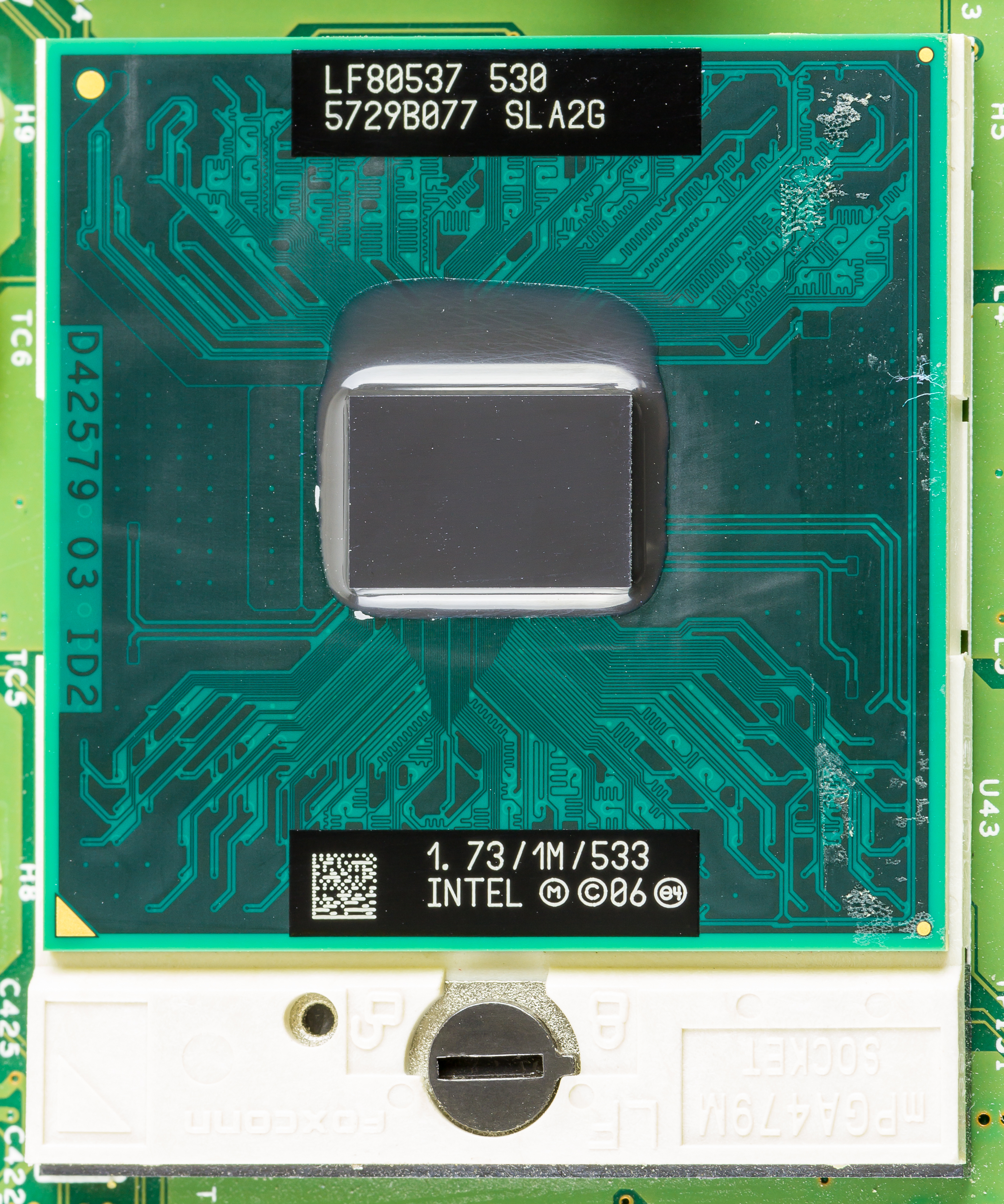 Acer Extensa 5220 - Columbia MB 06236-1N - Intel Celeron M 530 - Merom , SLA2G (1.73GHz, 1 MB L2 Cache, 533 MT/s FSB) - in Socket mPGA479M